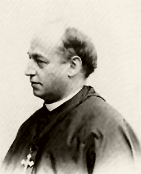 Kaspar Friedrich Brieden (1844-1908)